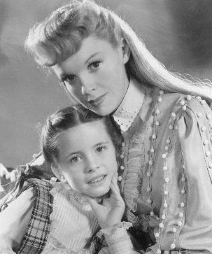 Publicity photo of American entertainers Judy Garland and Margaret O'Brien from the 1944 feature film Meet Me in St. Louis promoting the 1977 CBS airing of the 1974 compilation film That's Entertainment!.